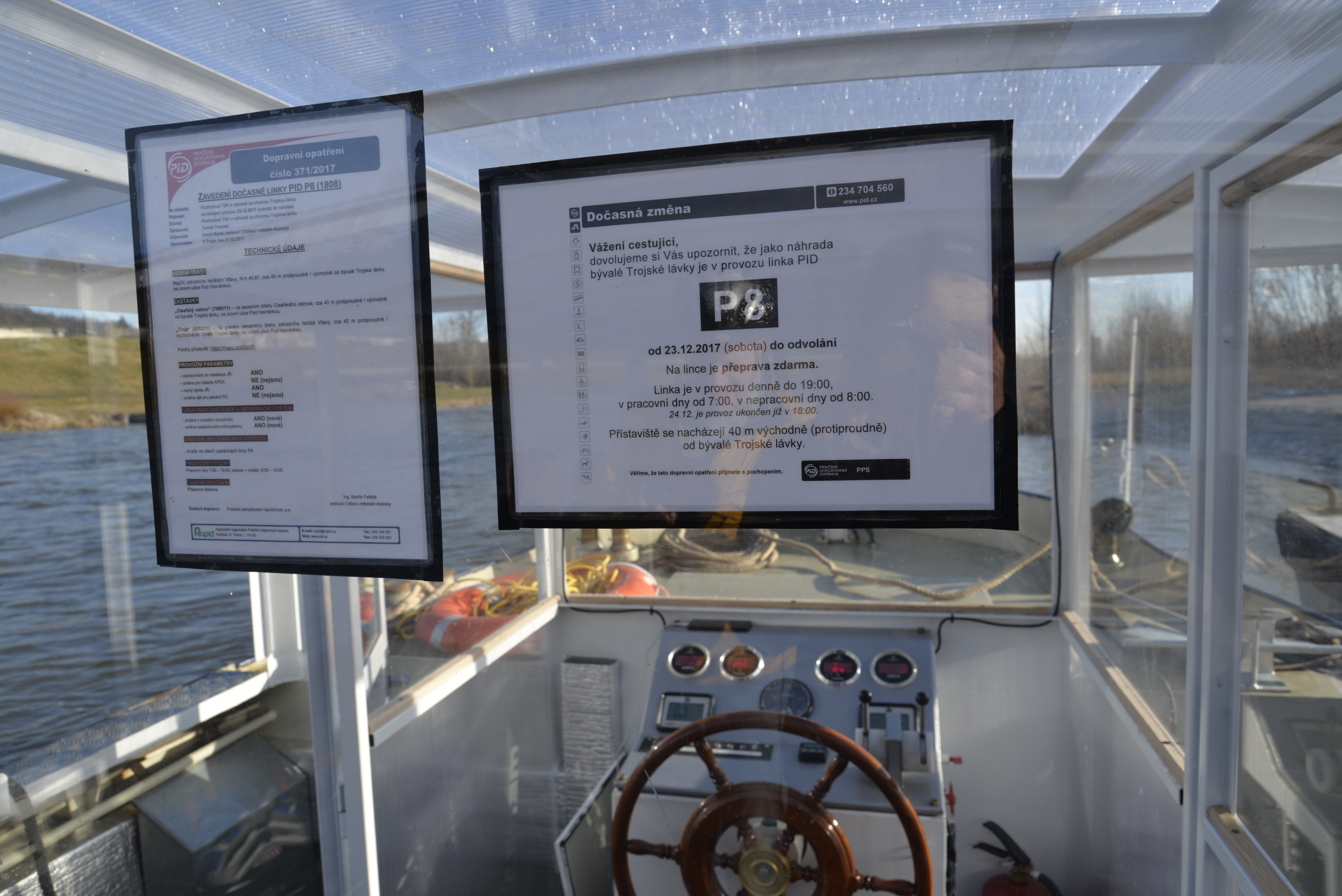 Renewed ferry Císařský ostrov - Troja